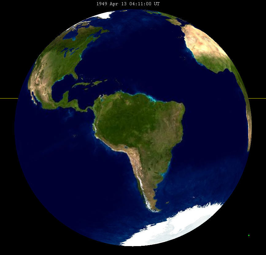 April 1949_lunar_eclipse view of earth The orientation of the earth as viewed from the center of the moon during greatest eclipse. thumb